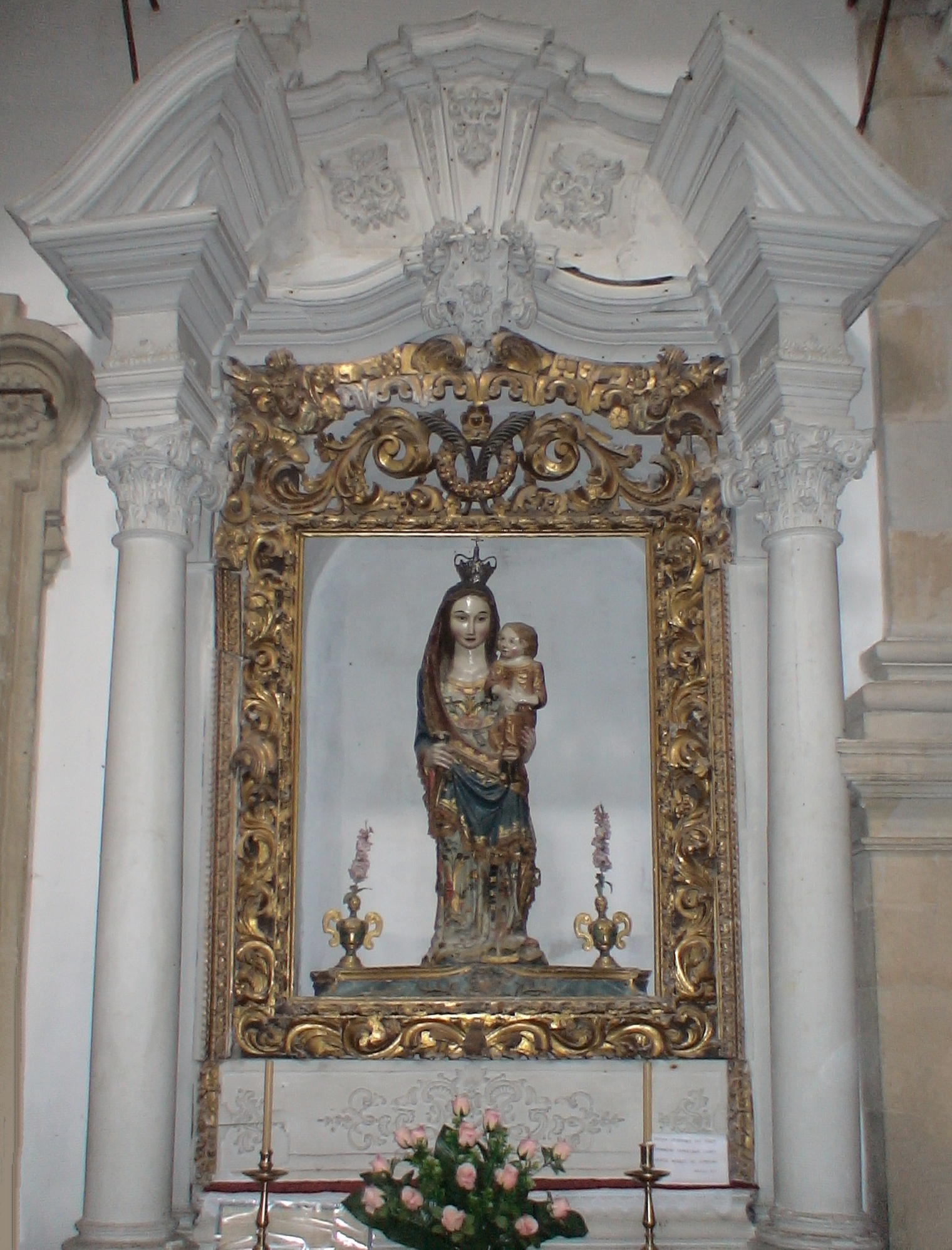 14th-century image of Our Lady of Life, in the Monastery of Lorvão, Penacova, Portugal.